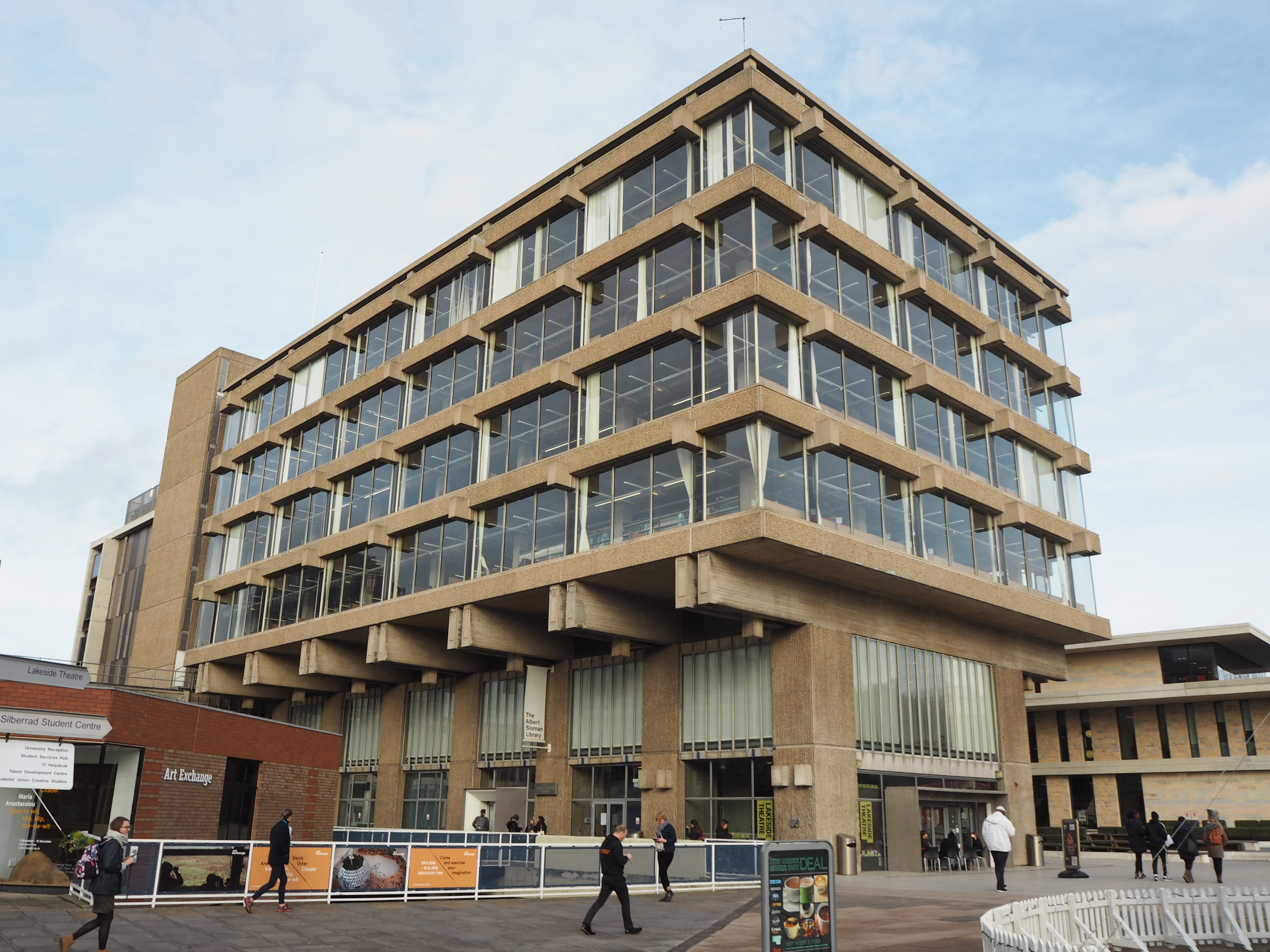 The Albert Sloman Library at the University of Essex's Colchester Campus